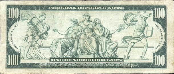 Reverse of 100 dollars (1914 series)